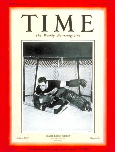 Chicago Blackhawks goaltender Lorne Chabot was the first ice hockey player to appear on the cover of Time Magazine.